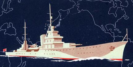 Kashii is the third Katori-class light cruiser of the Imperial Japanese Navy.